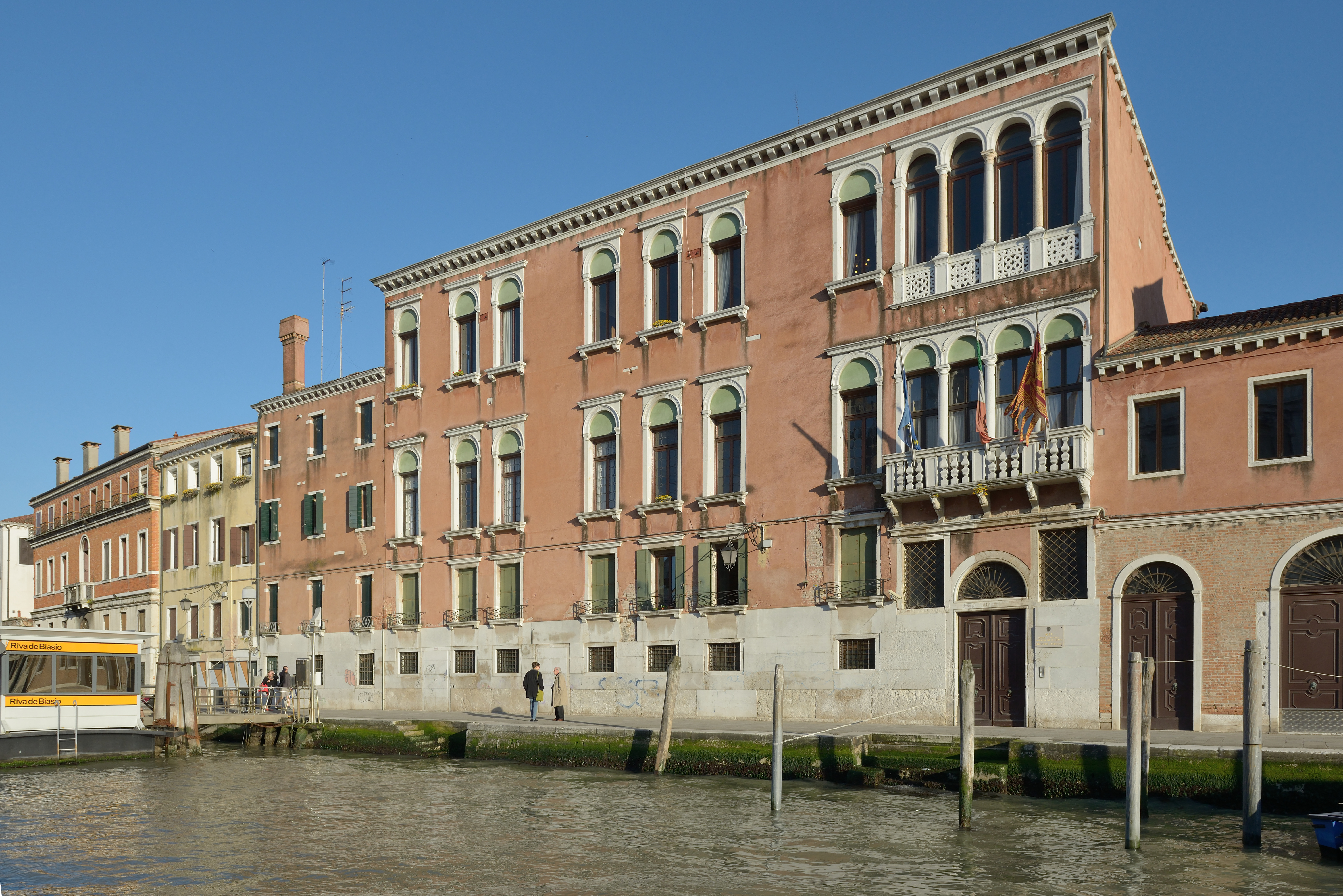 The Palazzo Donà Balbi on the Canal Grande in Venice.